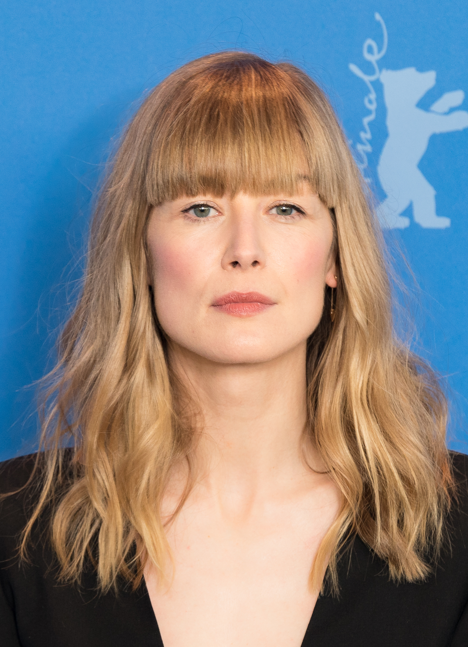 Rosamund Pike at the Berlinale 2018